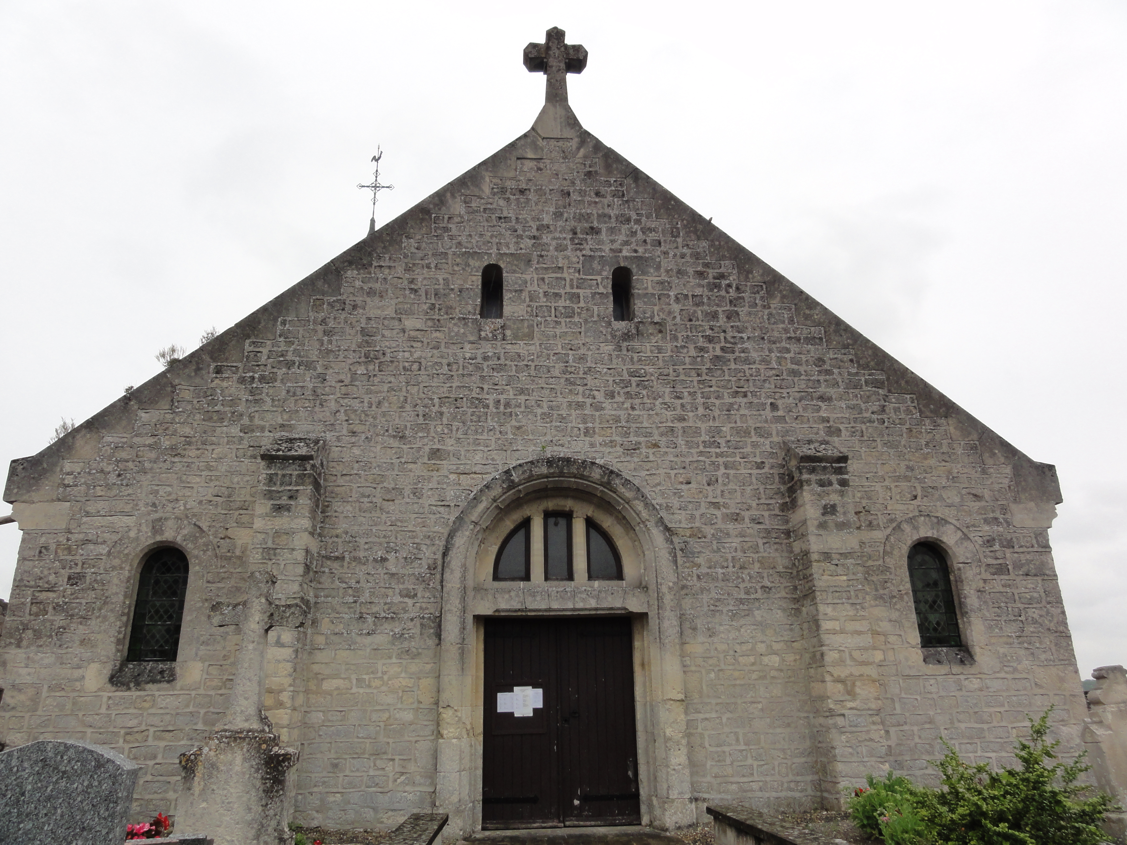 Clamecy (Aisne) église Saint-Gui